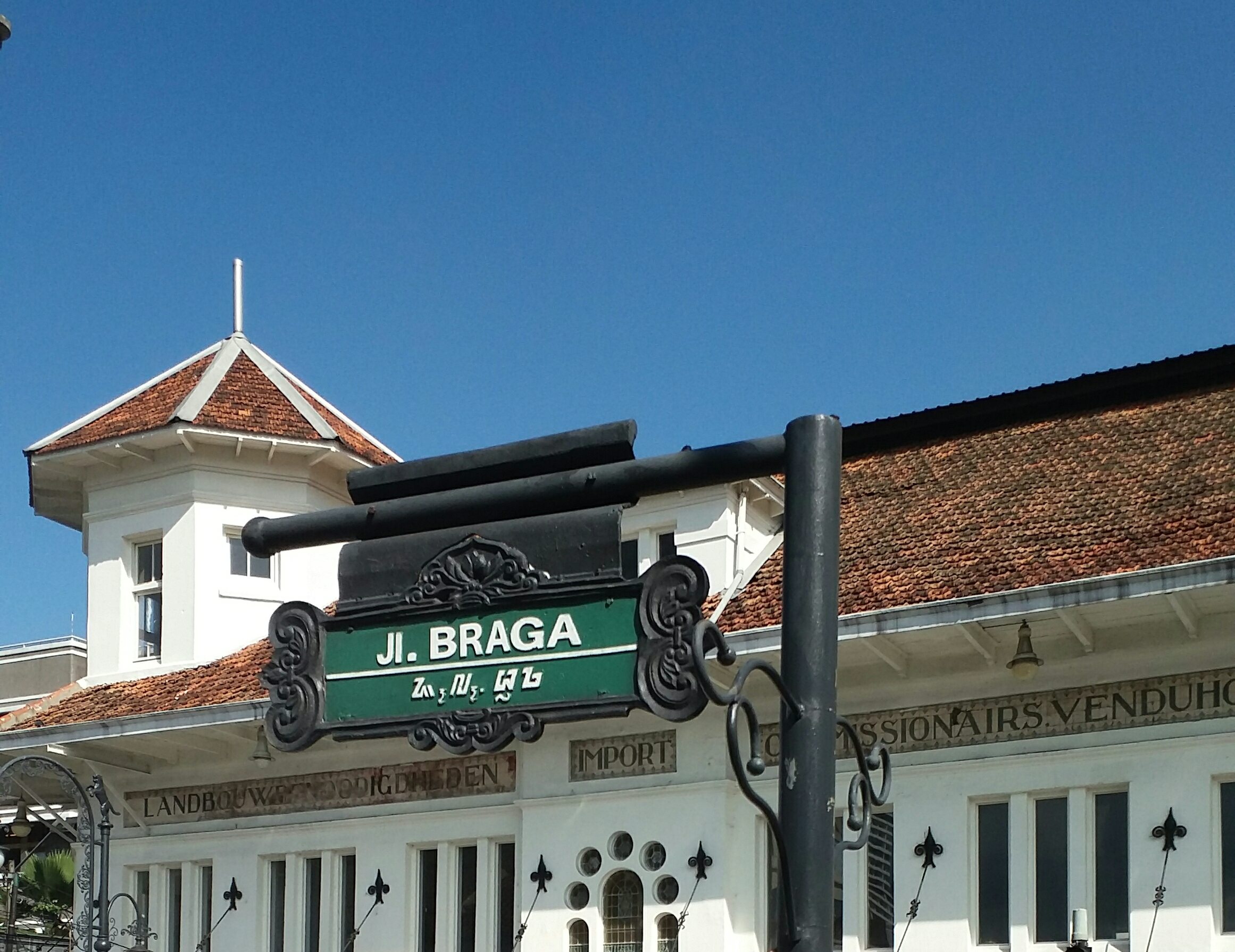 Jl Braga Streetsign in Bandung. This my real work, i captured this when i was in Bandung for having vacation in mid 2016.